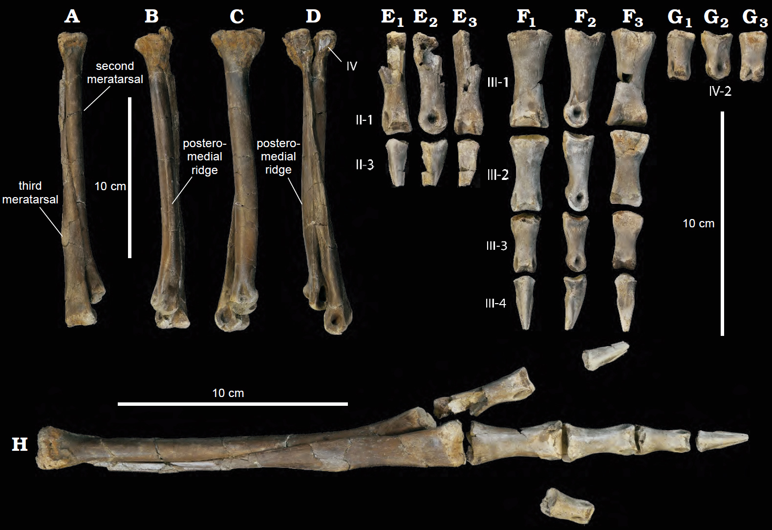 Specimen TMP 2000.012.0008 from Upper Campanian Dinosaur Park Formation, Dinosaur Provincial Park, Alberta, Canada. Formerly assigned to Leptorhynchos elegans (Parks, 1933), later proposed to be a young ornithomimid.[1] Partial foot, articulated second and third metatarsals in anterior (A), posterior (B), medial (C ), and lateral (D) views. Pedal phalanges of second (E), third (F), and fourth (G) digits in dorsal (E1–G1), lateral (E2–G2), and ventral (E3–G3) views. Reconstruction of foot in anterior (H) view.